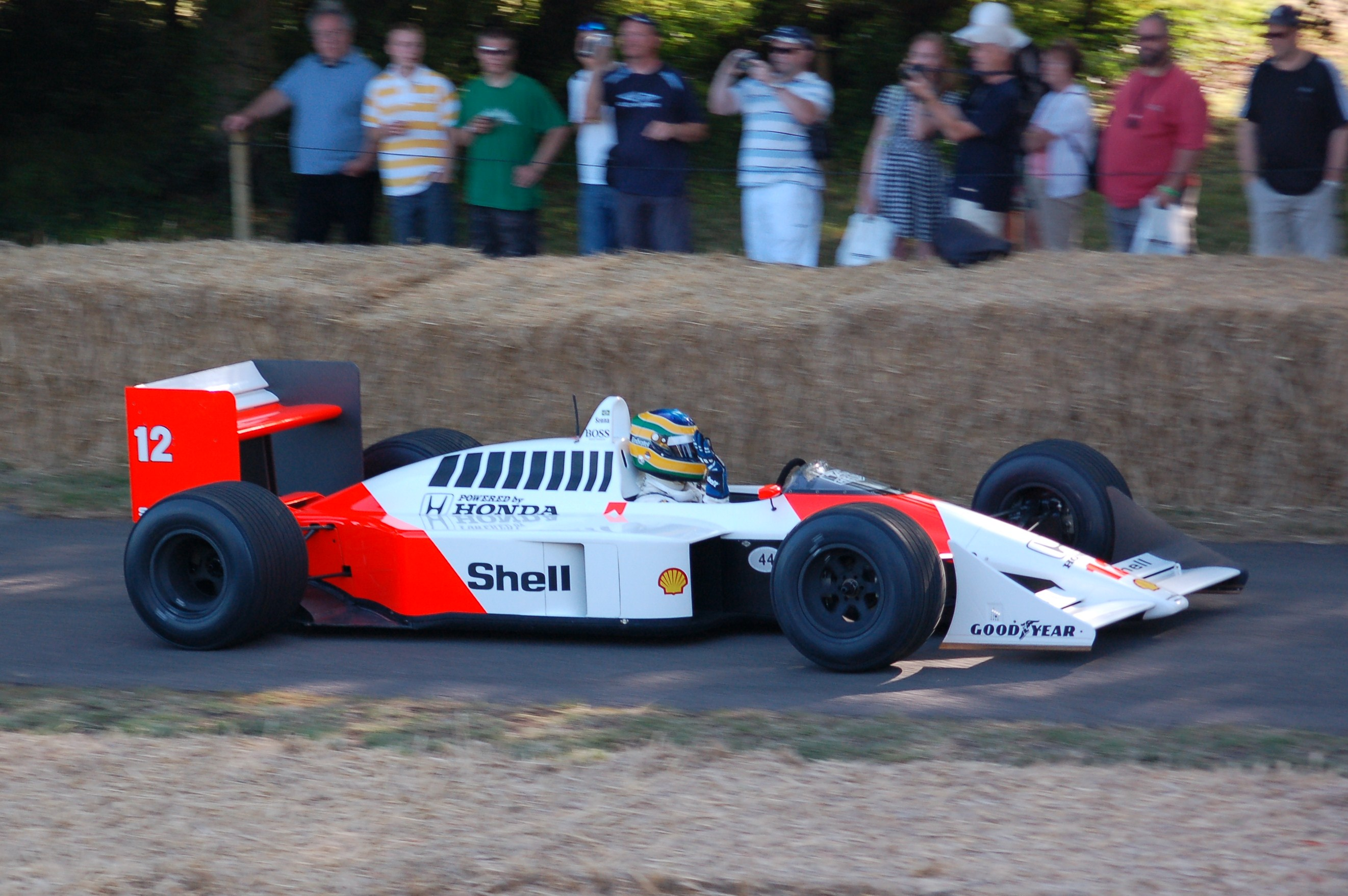 Bruno Senna demonstrates a 1988 McLaren-Honda MP4/4 at the Goodwood Festival of Speed.